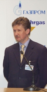 Alexei Miller